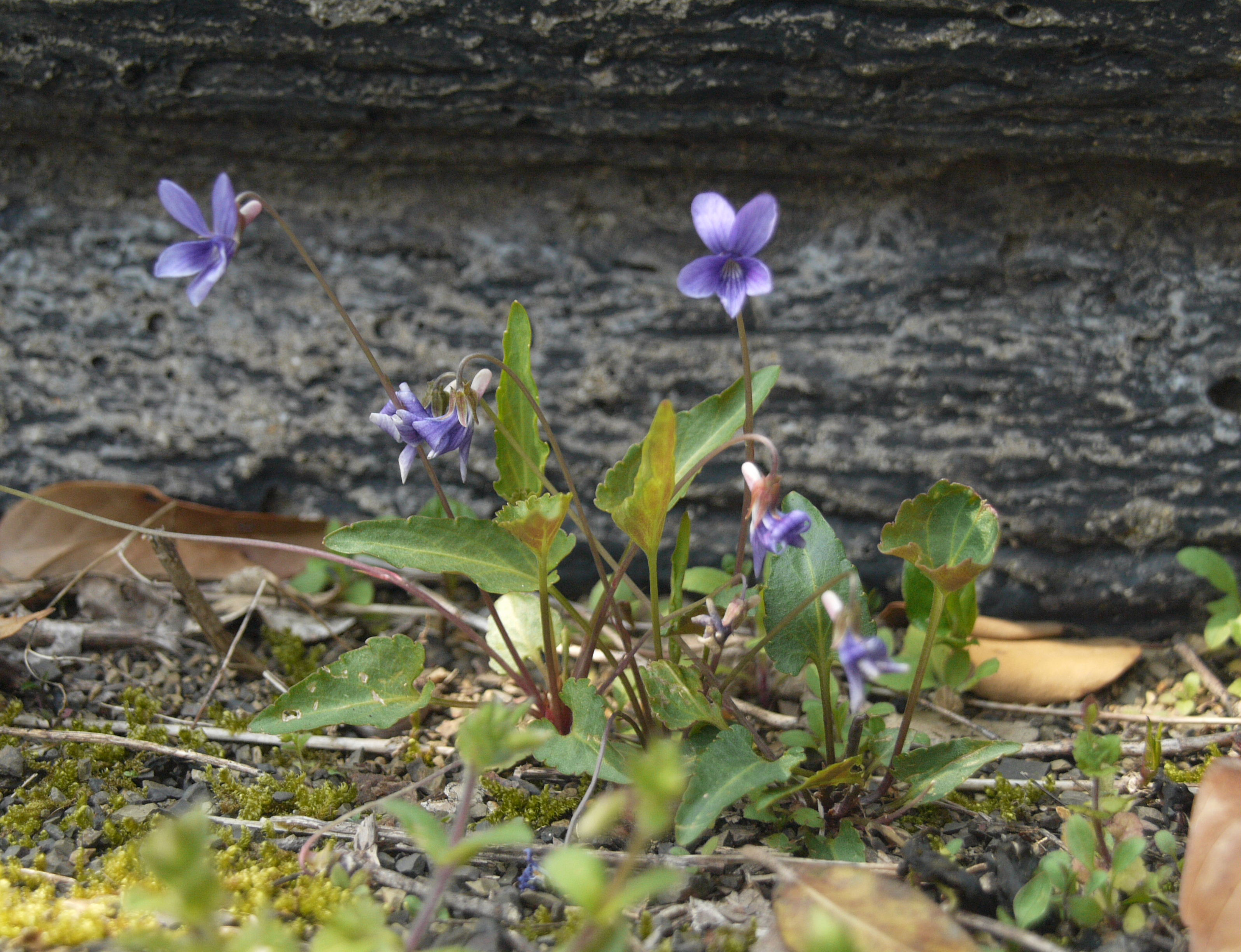 Viola minor